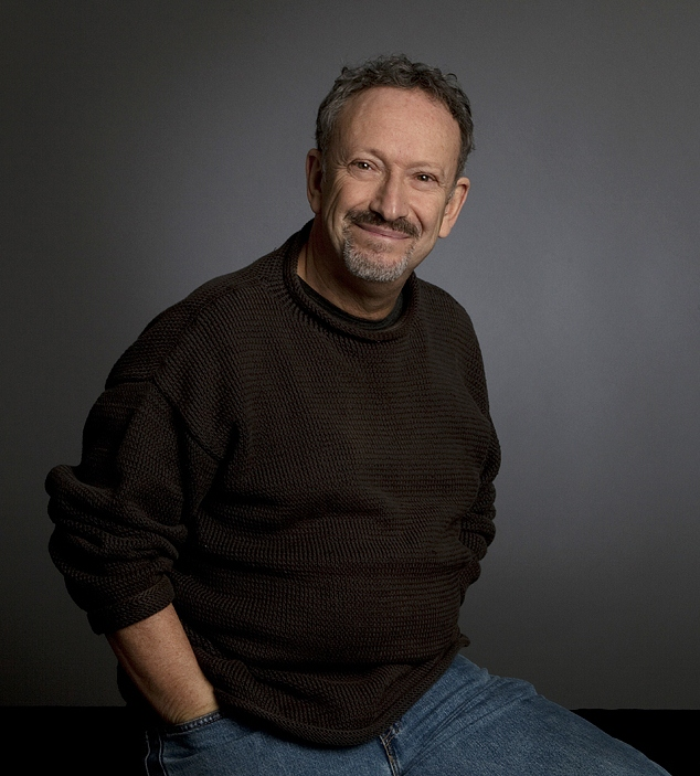 Allan Corduner publicity photo